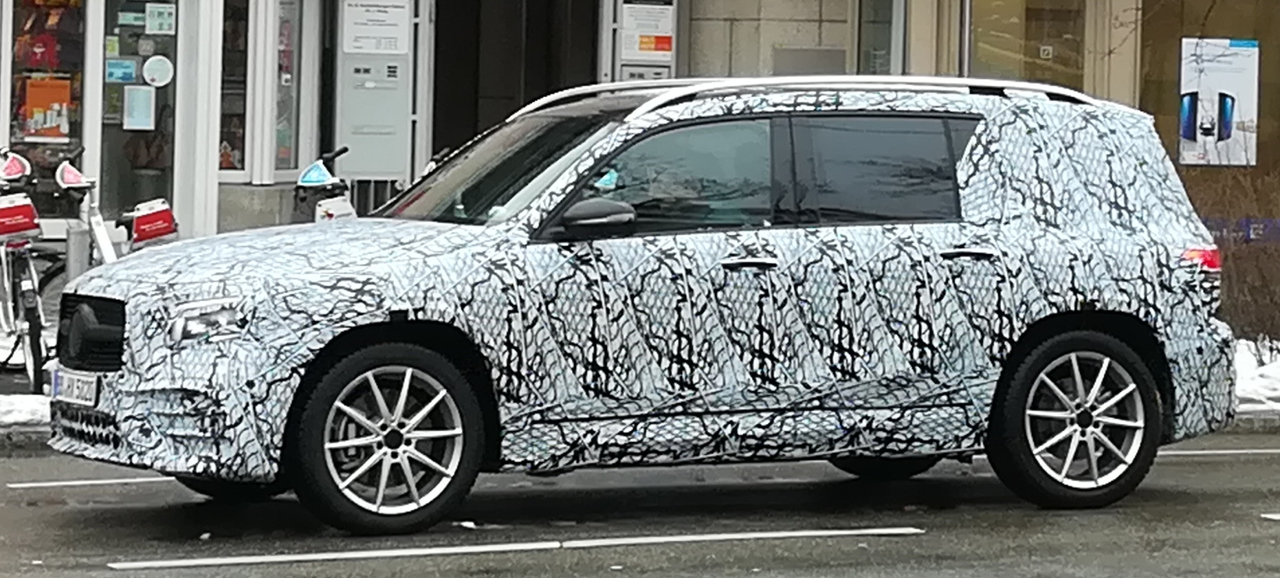 Mercedes-Benz GLB - Development Mule in Stuttgart